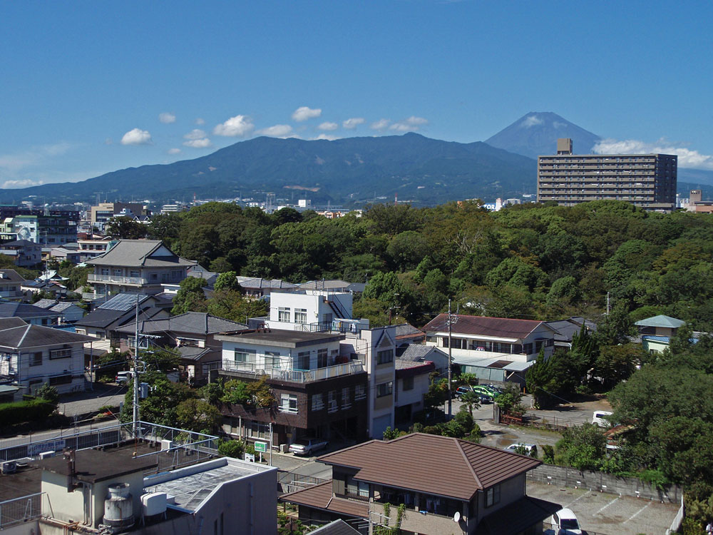 Mount Ashitaka and Mount Fuji as seen from the southeast. Shot at nearby the downtown of Mishima, Shizuoka Prefecture, Japan.